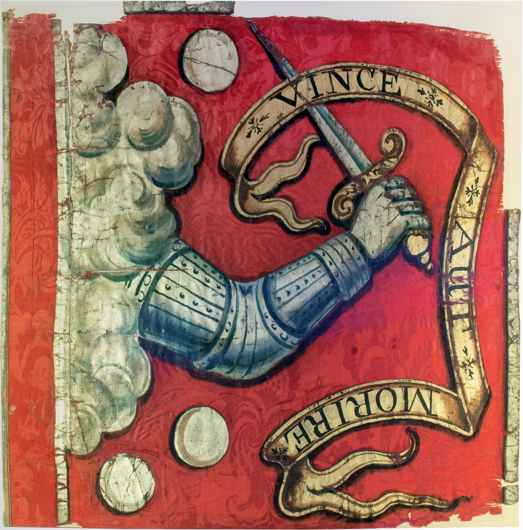 The Bedford Flag located at the Bedford Library